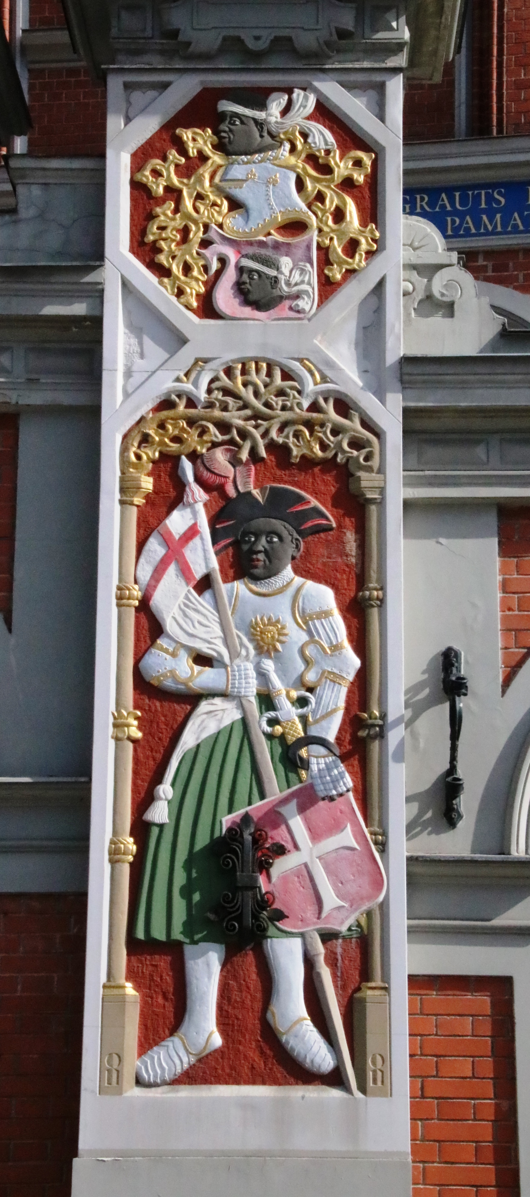 historic building in Riga